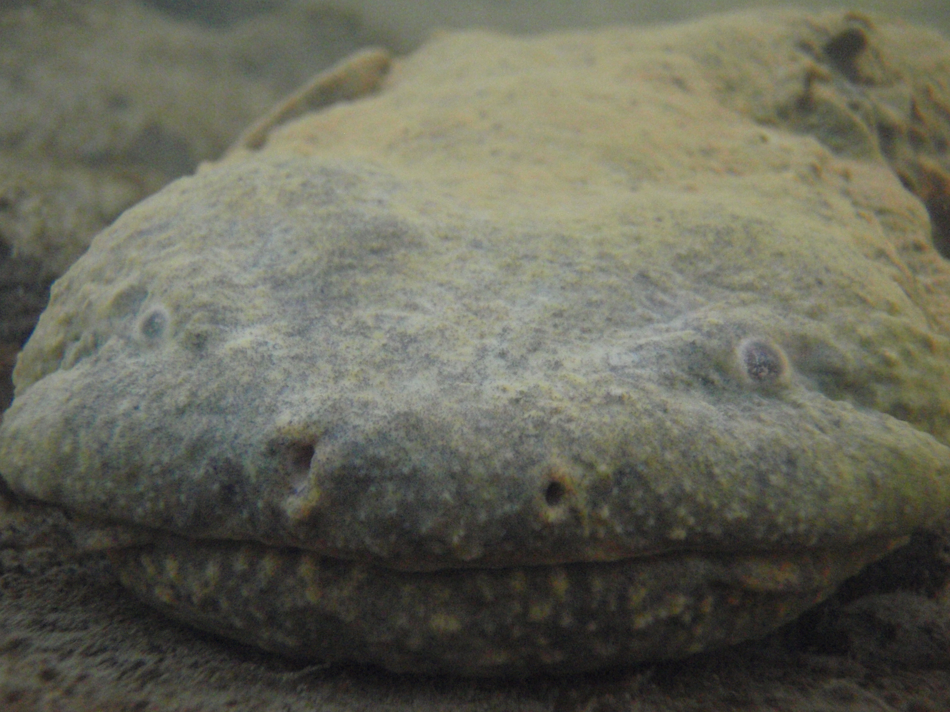 Adult hellbender in the wild in New York. The Buffalo Zoo received funding for hellbender research and restoration from the U.S. Fish and Wildlife Service and the New York State Department of Environmental Conservation as part of the State Wildlife Grants Program. Photo by Ken Roblee/New York Department of Environmental Conservation